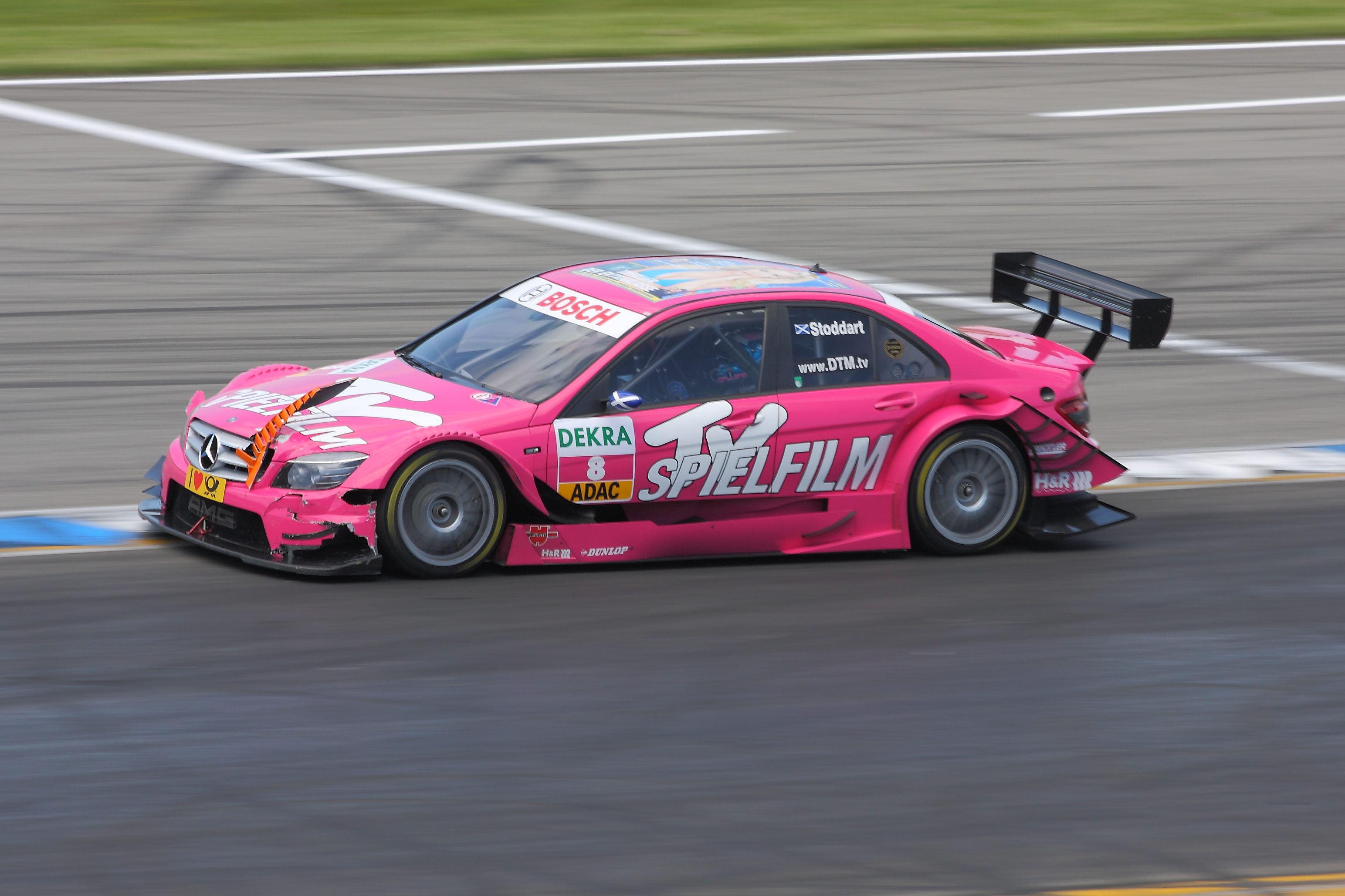 DTM car Mercedes-Benz Season 2009 (C-Class, W204), Susie Stoddart (driver)